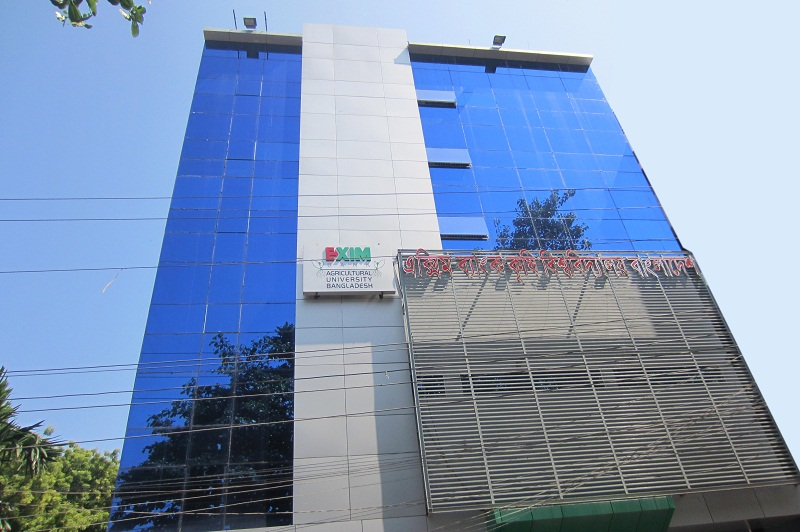 Exim Bank Agricultural University Bangladesh is the first research based private Agricultural University of Bangladesh. It is situated in Chapainawabganj which is the extreme West District of Bangladesh. The university has started its journey in 2014. The university offers bachelor degrees in Agriculture, Agricultural Economics, BBA and Law.